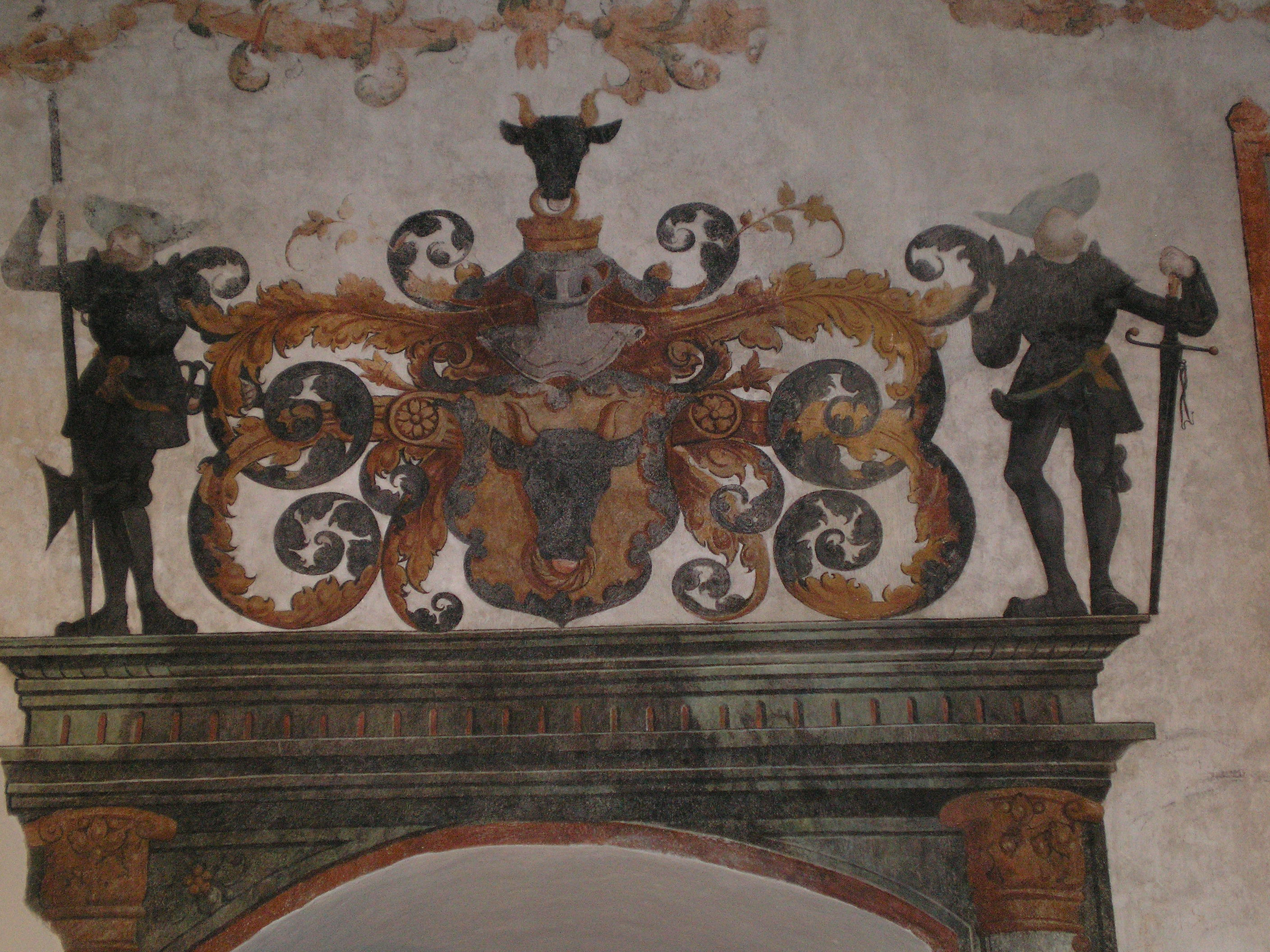 Pardubice castle interior 1